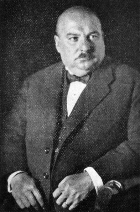 Oskar Nedbal (1874–1930) was a Czech violist, composer, and conductor of classical music.